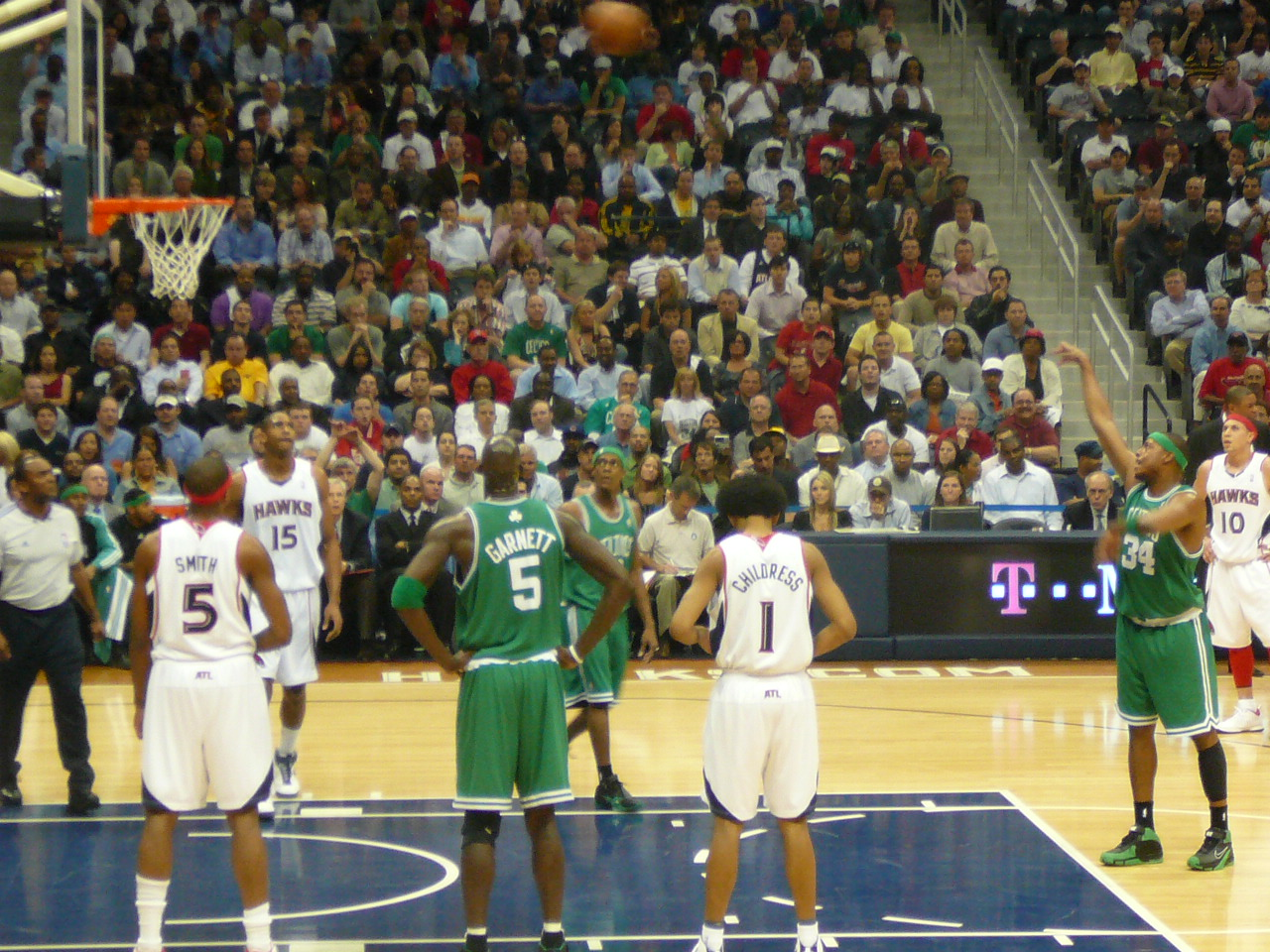 User:Chrisjnelson agreed to license this image of Paul_Pierce_Free_Throw.jpg under a free attribution license. Any use of this image must be attributed; this means that Photo by :en::en:User:Chrisjnelson|Chris Nelson should be in the picture caption.